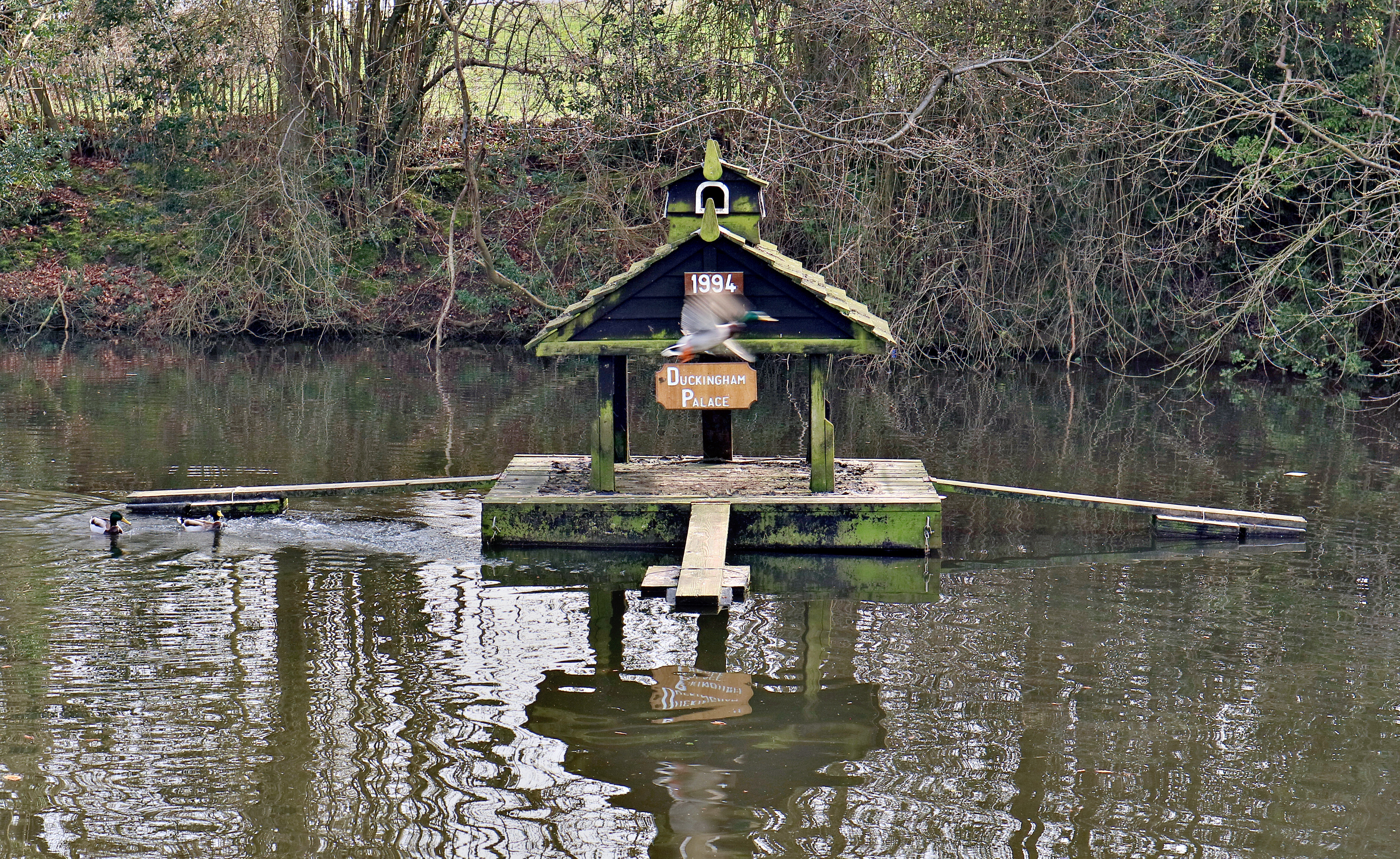 "Duckingham Palace" duck house on Widmore Pond, Sonning Common, UK. A male duck is in flight between the humorous name plaque and the construction date (1994)